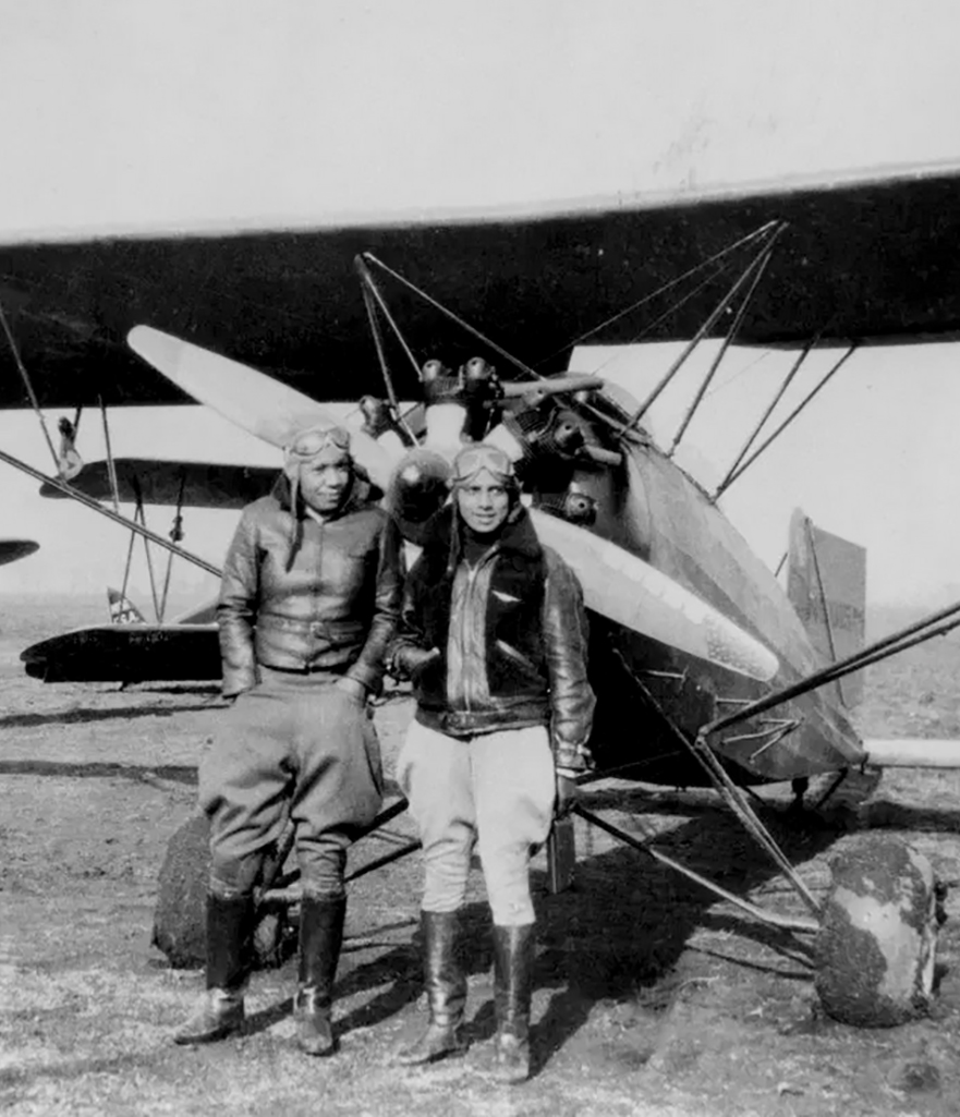 Harlem Airport in Chicago is where the Coffey School of Aviation was located. The school was co-founded by Willa Brown and Cornelius Coffey.